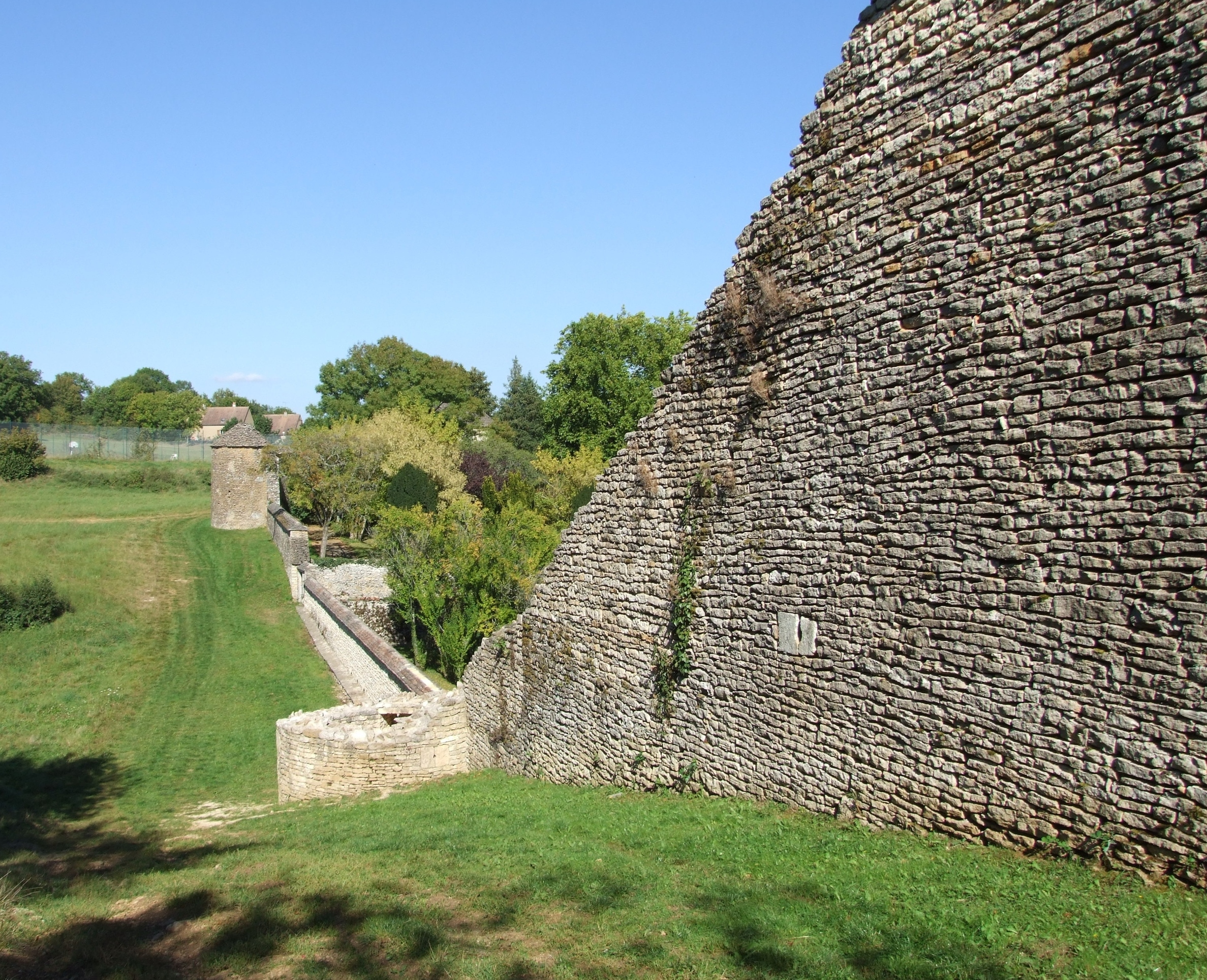 Salives, Burgundy, FRANCE